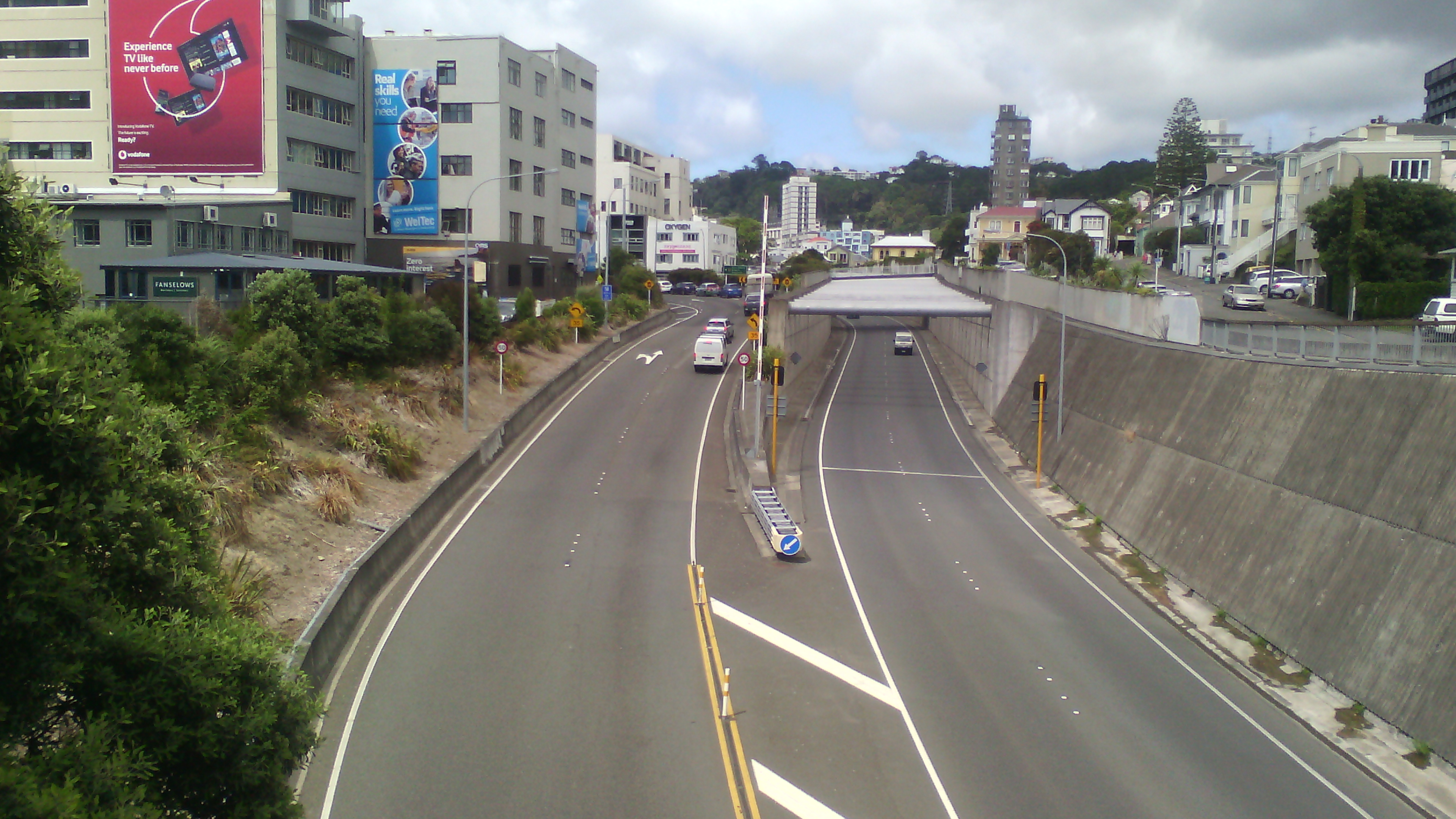 The trenched section of the Inner City Bypass, viewed from Ghuznee St.